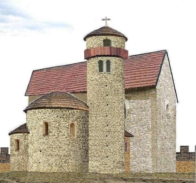 romanský dvorec Jemnice Podolí verze 1.